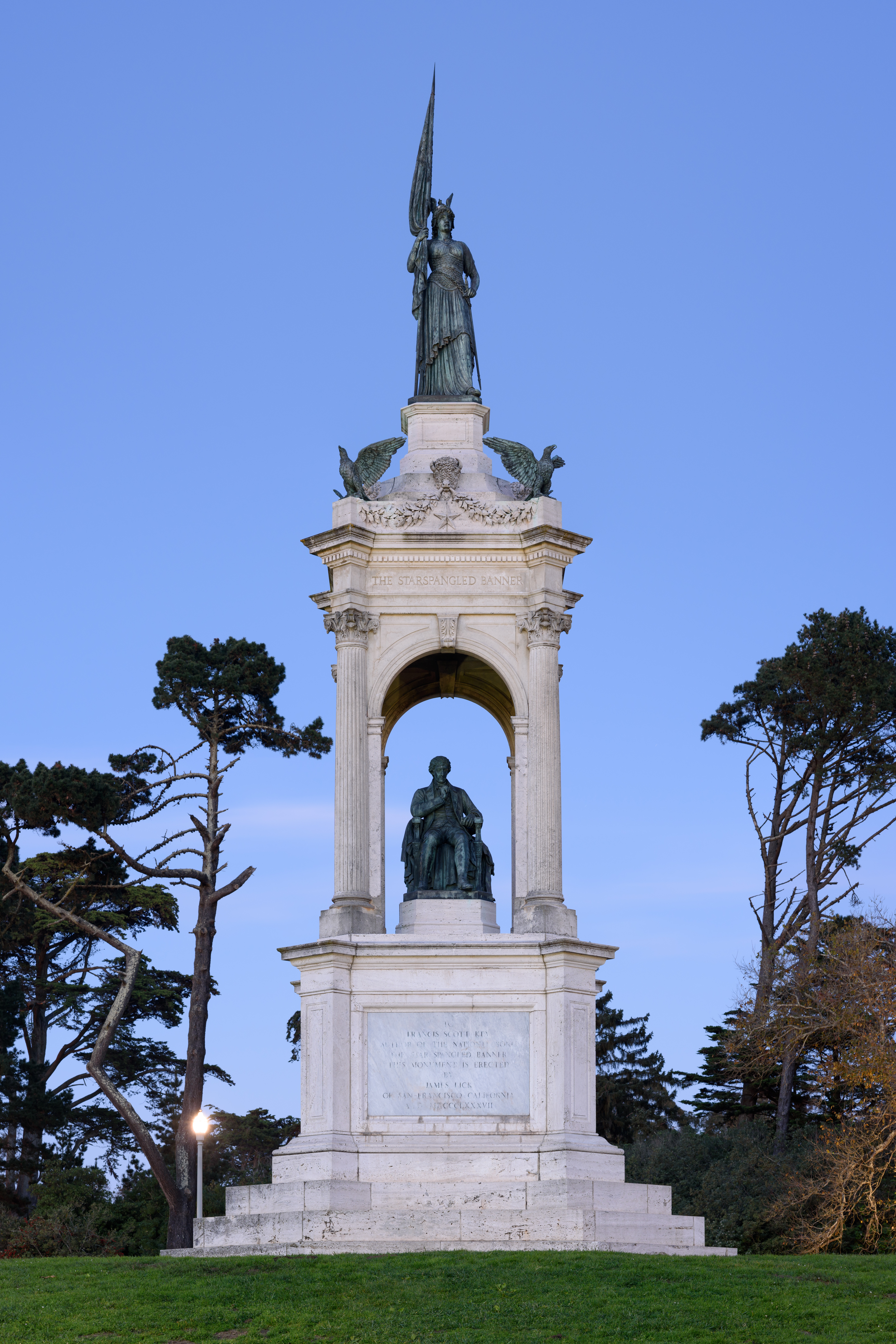 Three-segment panorama of Francis Scott Key Monument, Golden Gate Park, San Francisco.